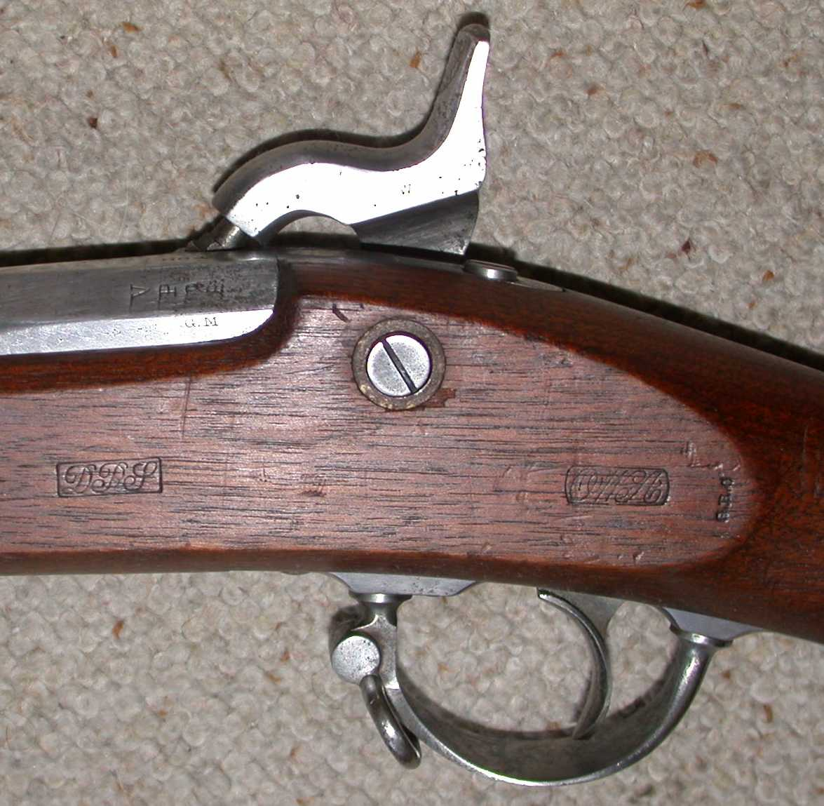 1861 US Rifle Musket, Inspector Cartouches